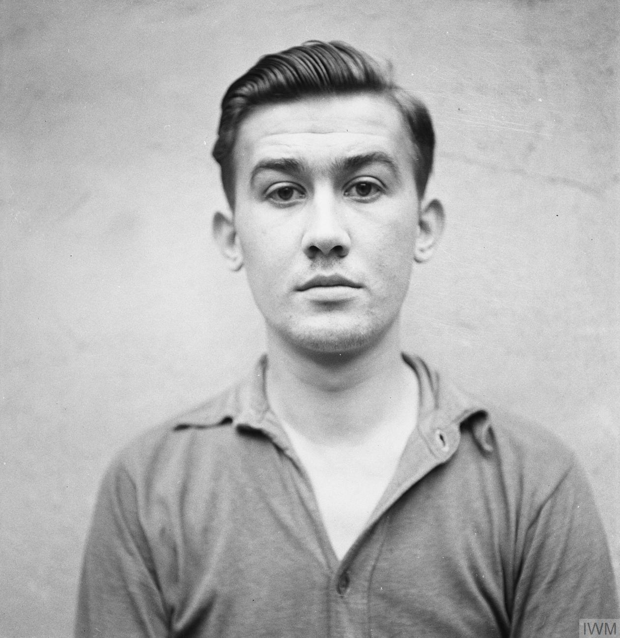 The Liberation of Bergen-belsen Concentration Camp 1945- Portraits of Belsen Guards at Celle Awaiting Trial, August 1945 Wilhelm Dorr: sentenced to death.